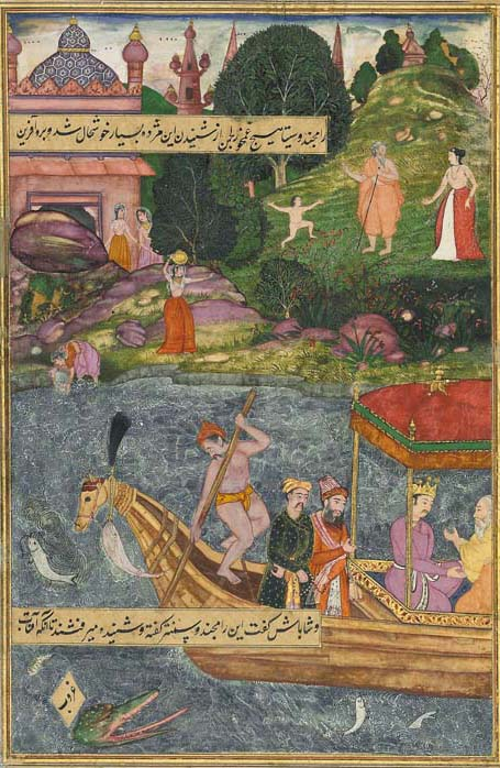 Lakshman taking leave of Sita Mughal India, 1594 AD Folio 431 verso (p. 862), gouache heightened with gold and silver on paper, the foreground with a boat with a horse-headed prow, with Lakshman seated beneath a canopy with a fish leaping out of the water and a crocodile's head appearing below, the figures of Sita and Valmiki in the background, two lines of flowing black nasta'liq within panels, the recto with 18 lines of text, slight flaking Miniature 12¾ x 8¼in. (32.4 x 21.4cm.); text area 9½ x 5½in. (23.7 x 13.8cm.) Lakshman leaves Sita on the further bank of the Ganges while he returns to the other side. She is left with Valmiki who takes her to the hermitage of some female ascetics. The text on the front says that Lakshman is happy on hearing the good news. The text on the recto contains Sita's justification of herself. This is an unusual miniature. The subject does not appear in either the Ramayana produced for Akbar himself, nor that made for 'Abd al-Rahim. Having been repudiated by Rama, Sita is left in a hermitage where she bears her twin sons (seen in lot 61). After fifteen years of exile, Rama finally accepts her purity. Sita is widely regarded as a paragon of wifely virtue. Akbar's mother, Hamida Banu Begum, may well have felt a strong identification with her, having followed her husband, Humayun into temporary exile in Iran and thereby endured great personal hardship. Shortly after their marriage, Humayun lost his base in India and was forced to flee across the desert. He, his wife and followers were given refuge in Amarkot, where Hamida Banu gave birth to her first child. Had it not been for the generosity of these Rajputs, it is unlikely that any of them would have survived. This trek of a royal lady following her exiled husband beyond civilisation has a close parallel with the story of Sita and Rama and must have appealed both to Hamida Banu and to Akbar himself.